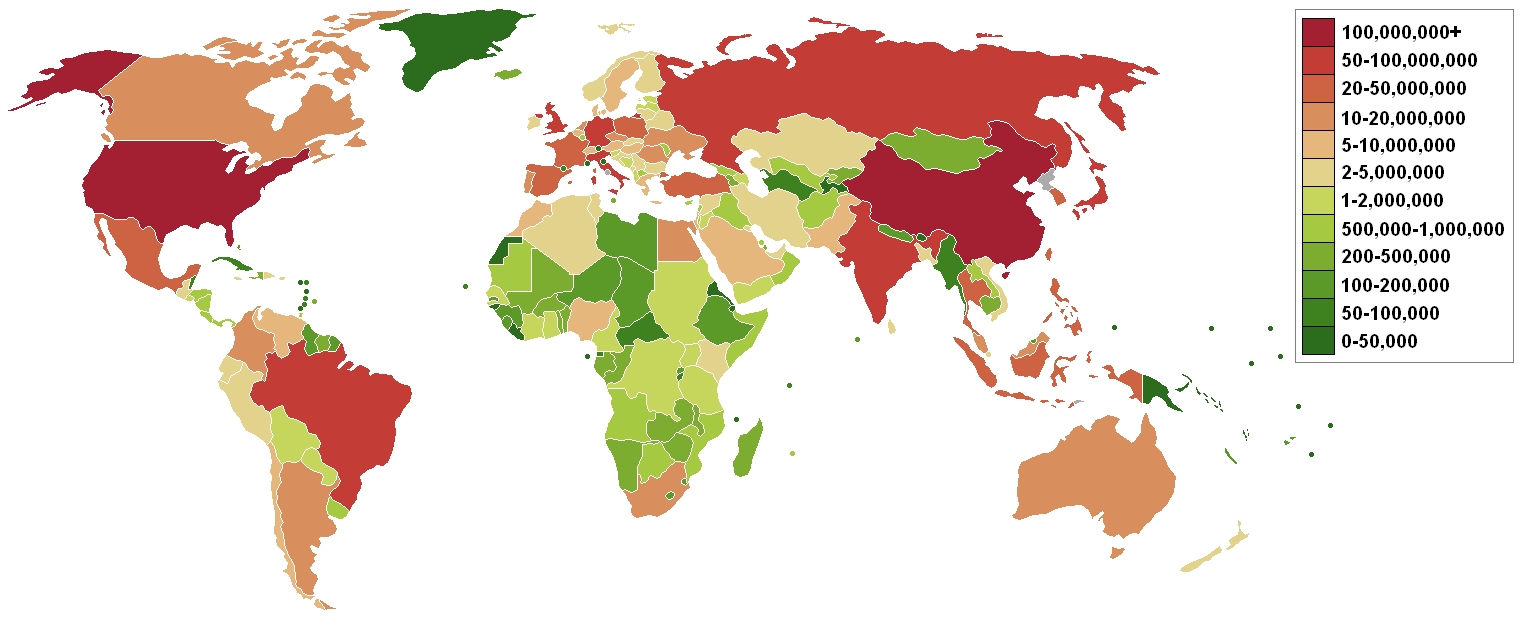 Mobile phone use, c. 2004 (CIA data uses figures from between the 1990s and 2005, with most coming from 2004)